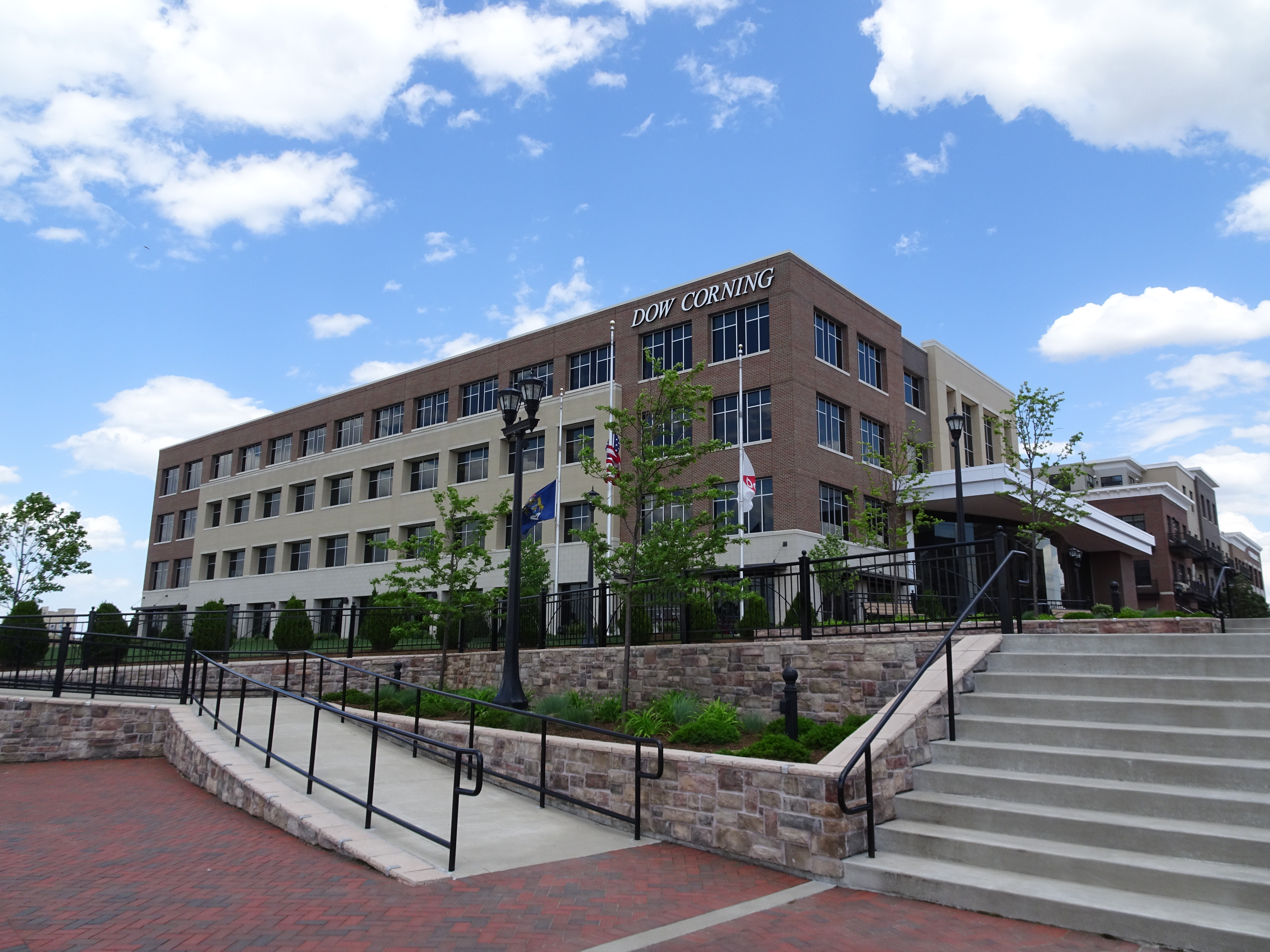 Dow Corning in Uptown Bay City, a brownfield redevelopment site on the Saginaw River in Bay City, Michigan